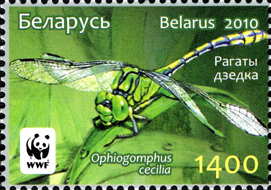 Stamp of Belarus